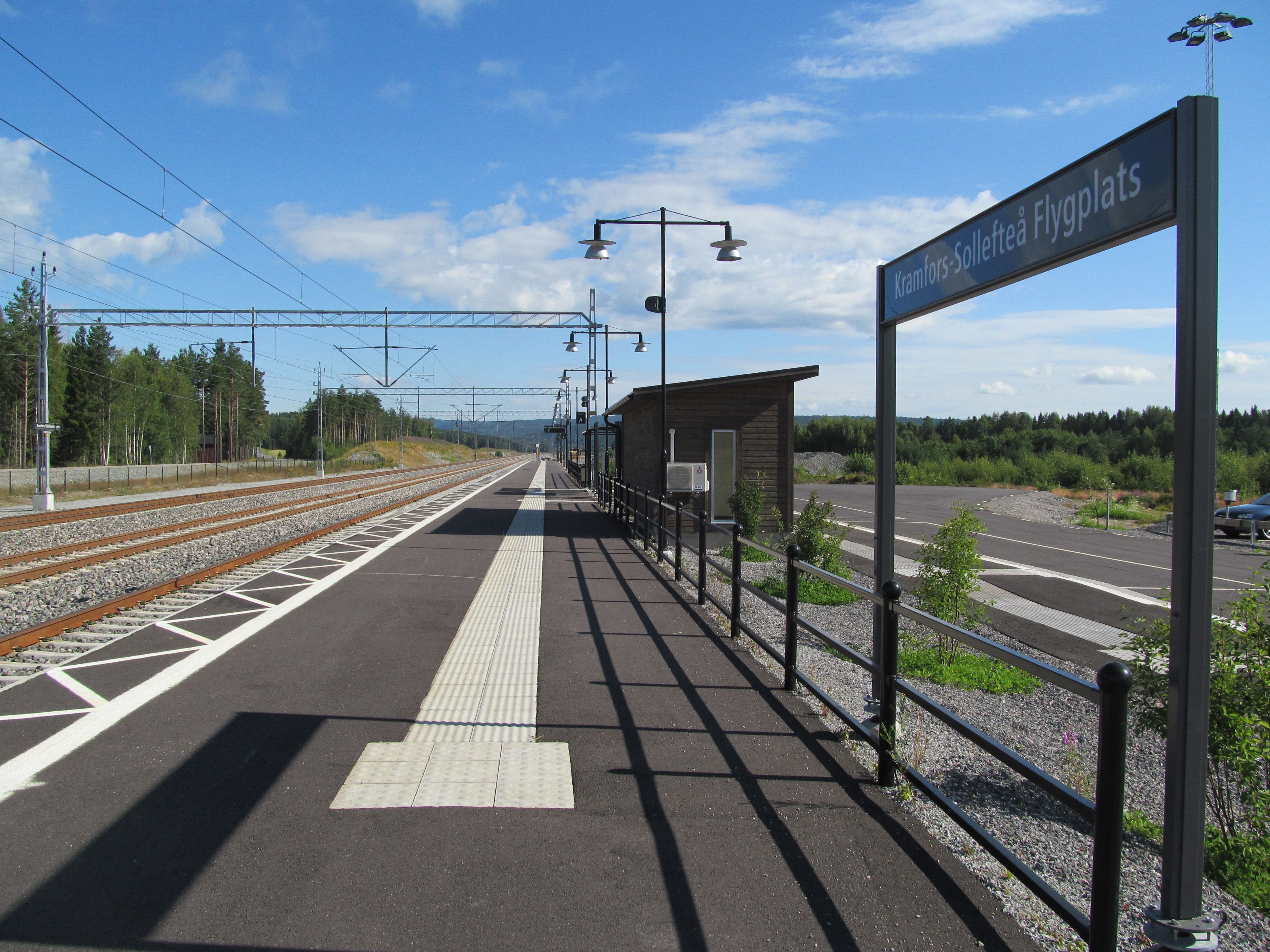 A train station north of Nyland. The station is called "Västeraspby" in timetables, but signs on location (when the photo was taken) said "Kramfors-Sollefteå flygplats" after the nearby airport. The airport had however recently changed its name to "Höga Kusten Airport".